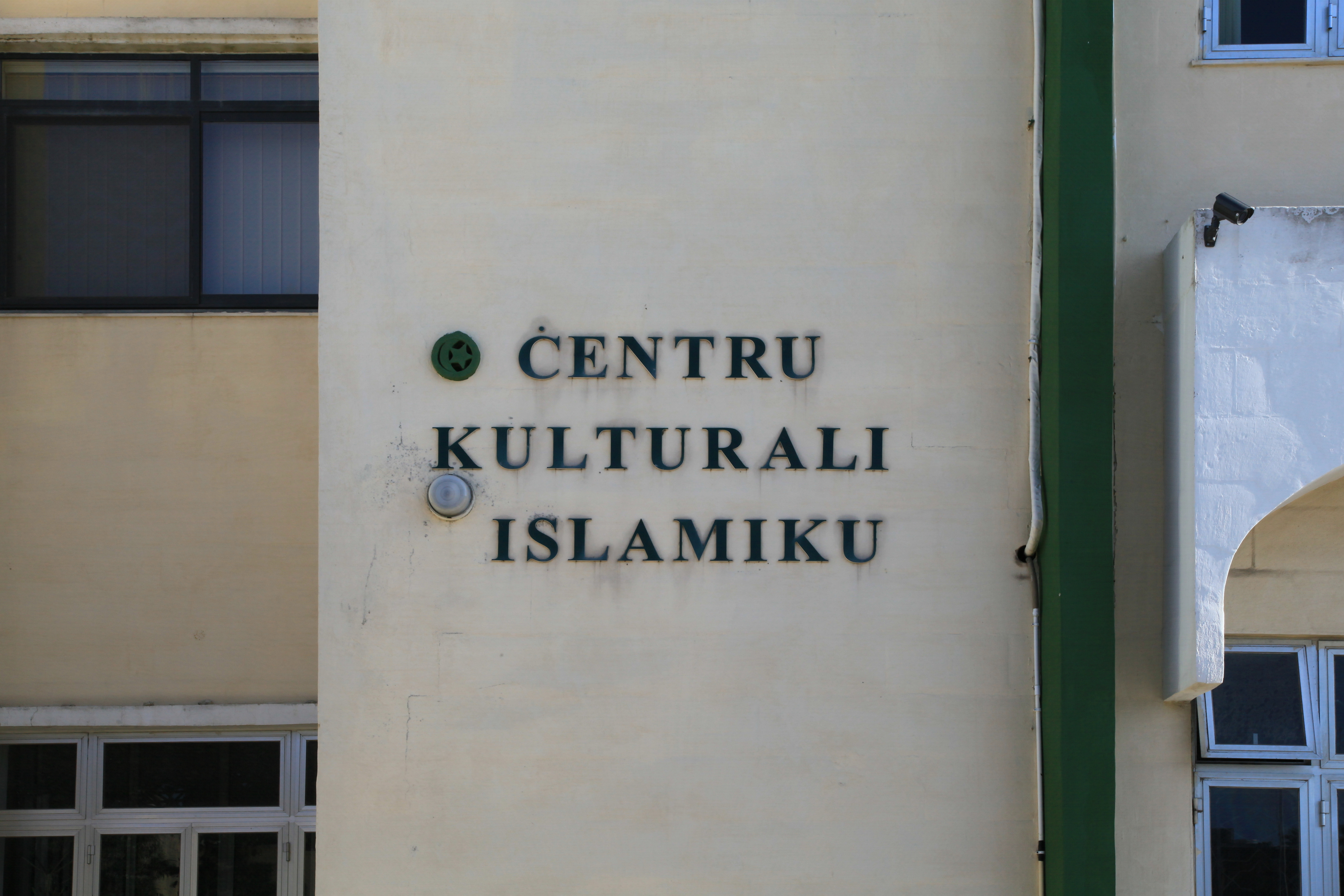 Ċentru Kulturali Islamicu at Triq Kordin in Paola, Malta